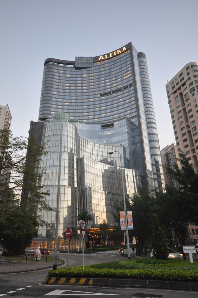 View of Altira Casino and Hotel